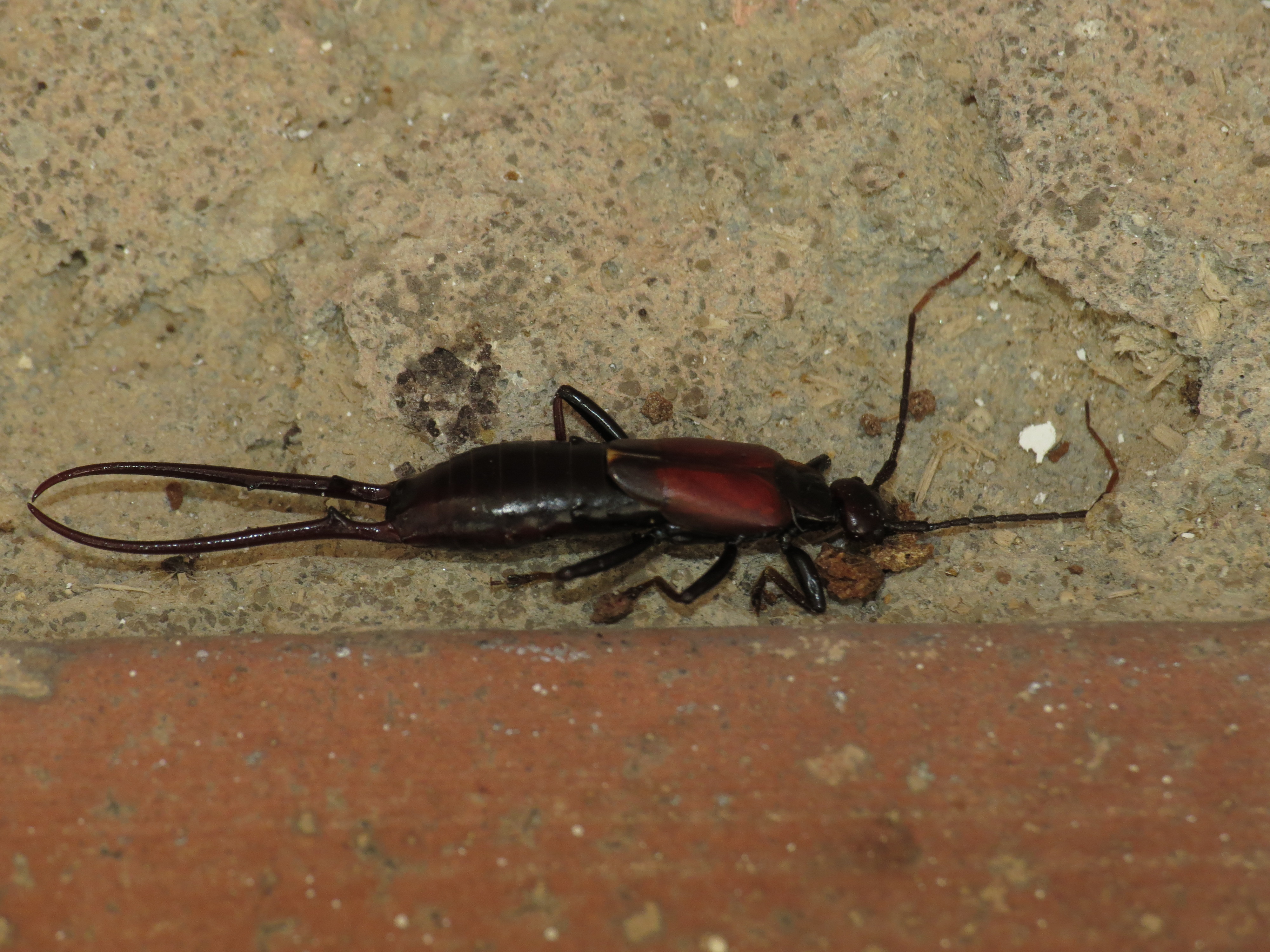 Timomenus komarowi (Semenov 1901), male, dead, found with live female on hotel balcony, Pyeongchang, South Korea, 11 October 2014